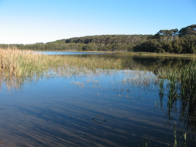 This coastal freshwater lake is in Eurobodalla National Park just south of Narooma NSW. The line of trees in the top left are growing on sand dunes, with Fuller's Beach immediately behind.